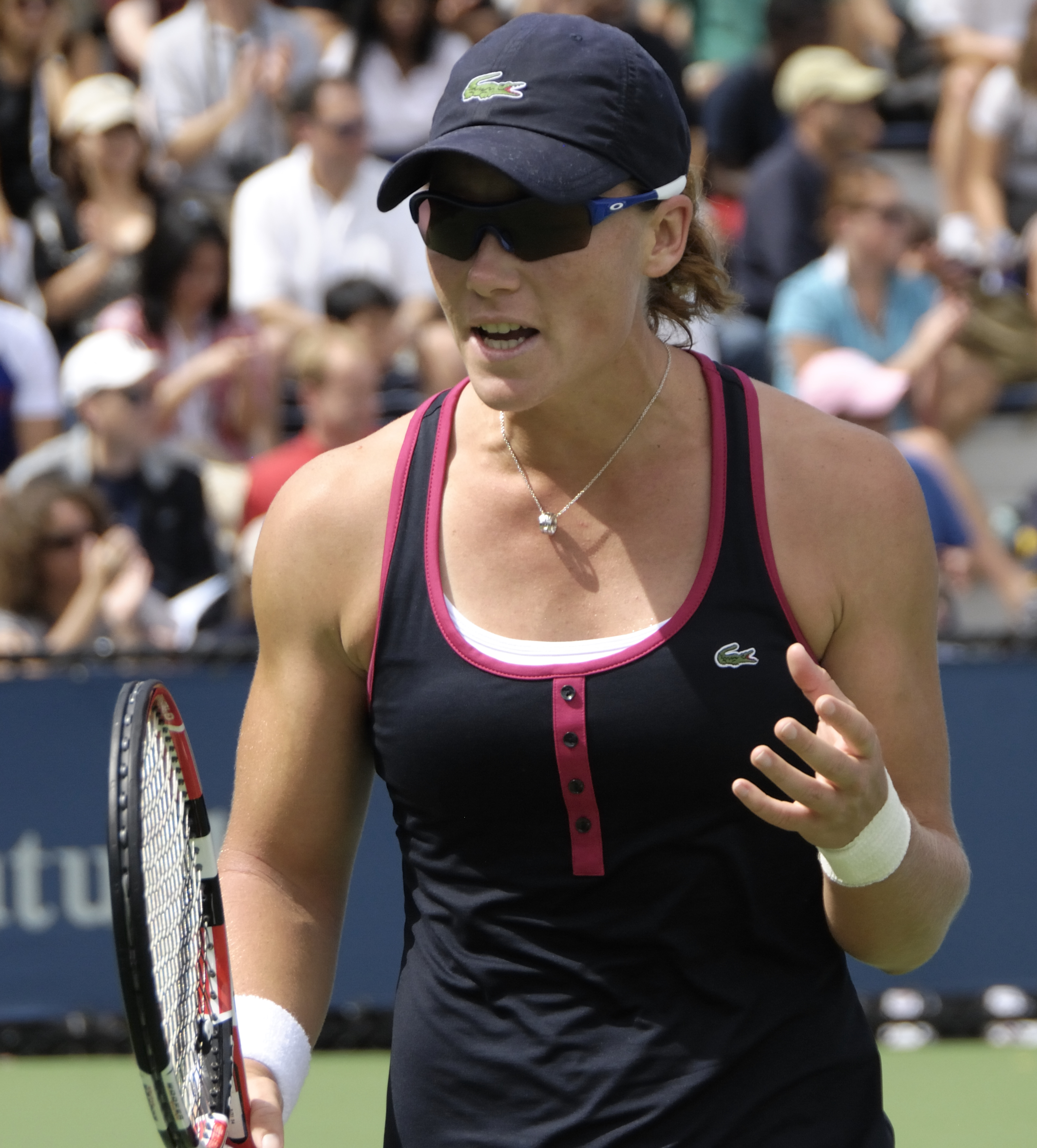 Samantha Stosur at the 2009 US Open